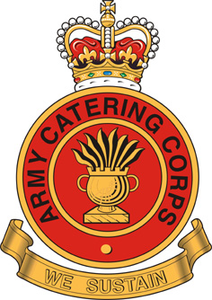 Cap badge of the Army Catering Corps